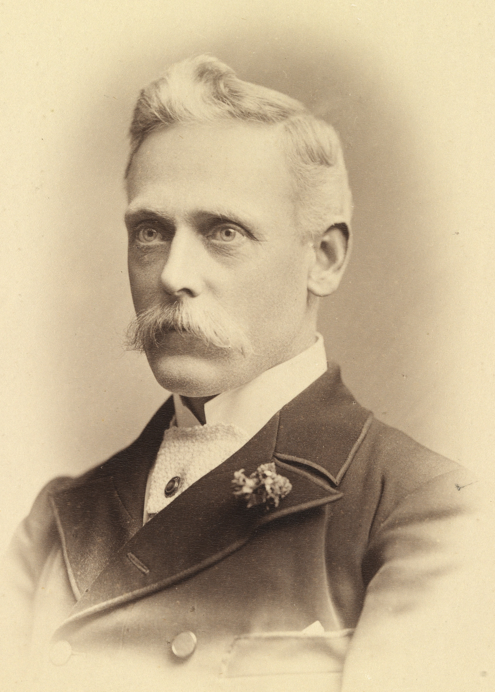 William James McWilliams (1856 - 1929), by J. W. Beattie